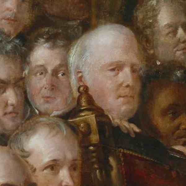 left to right:w:Stephen Lushington, Sir John Eardley-Wilmot, Jonathan Backhouse (1779-1842) with Louis Celeste Lecesne and others at the British and Foreign Anti-Slavery Society in 1840. Note this is an extract from a much larger painting.